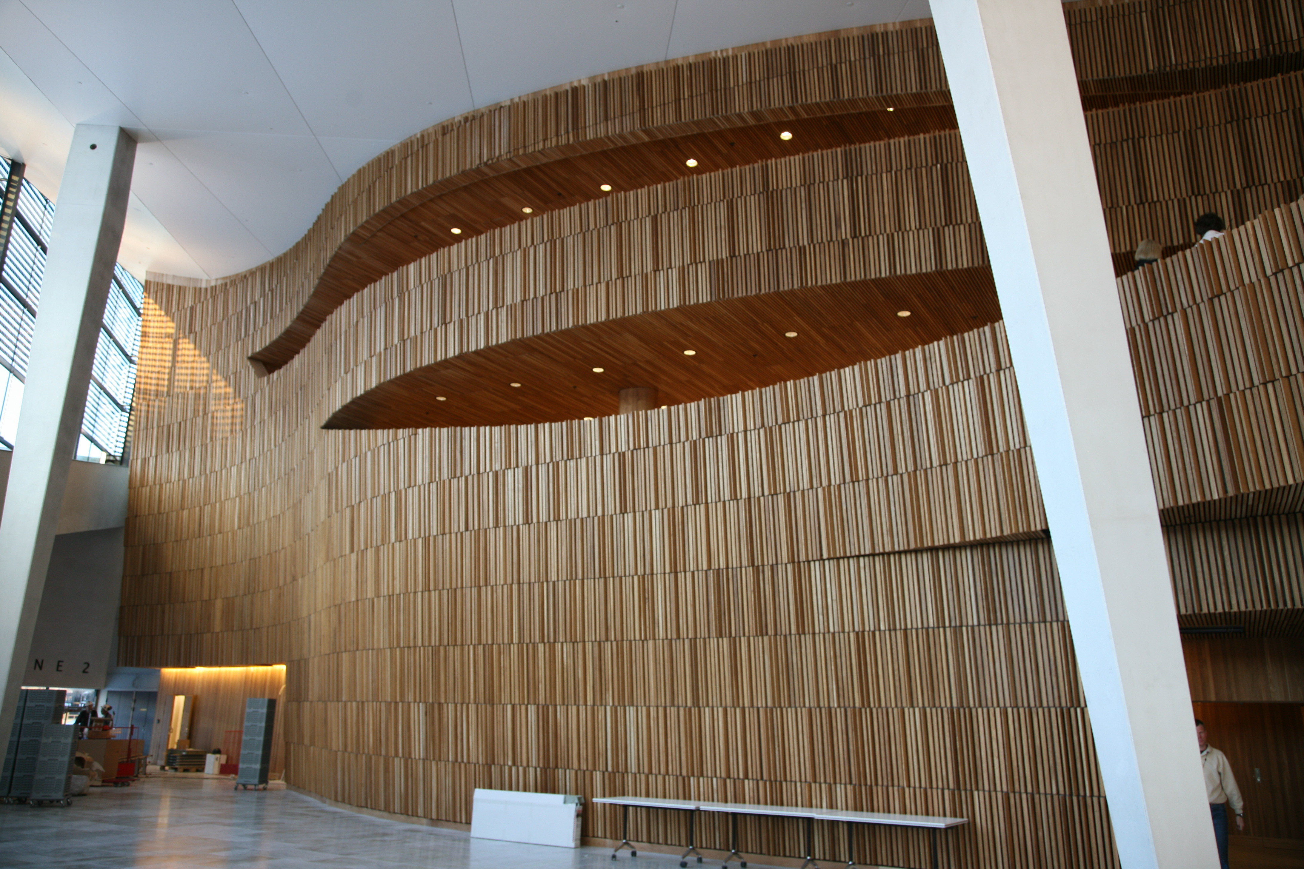 Interior of Oslo Opera house